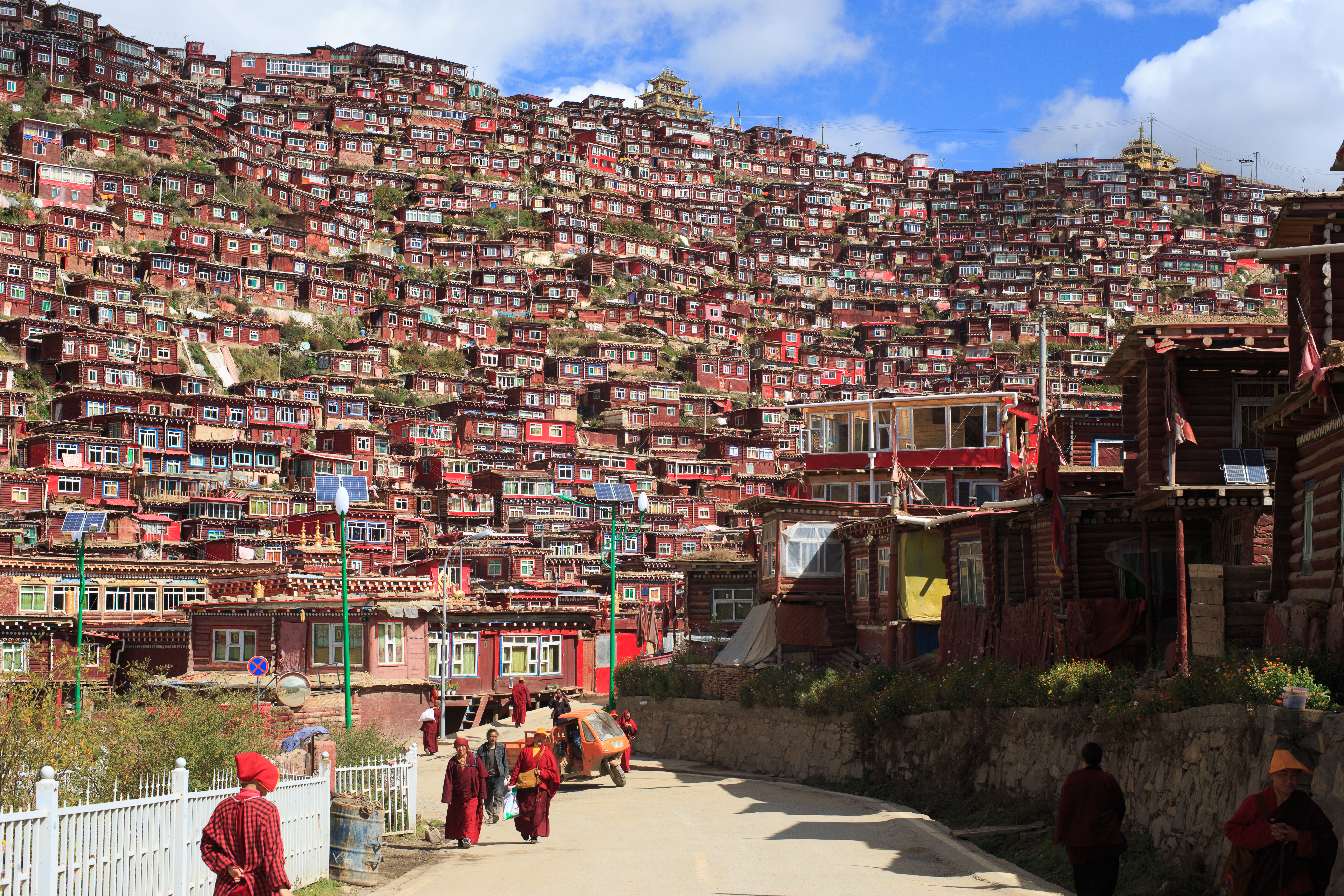 Larung Gar, a Tibetan city dedicated to buddhist study, located at the border with Tibet, at 4000m altitude.